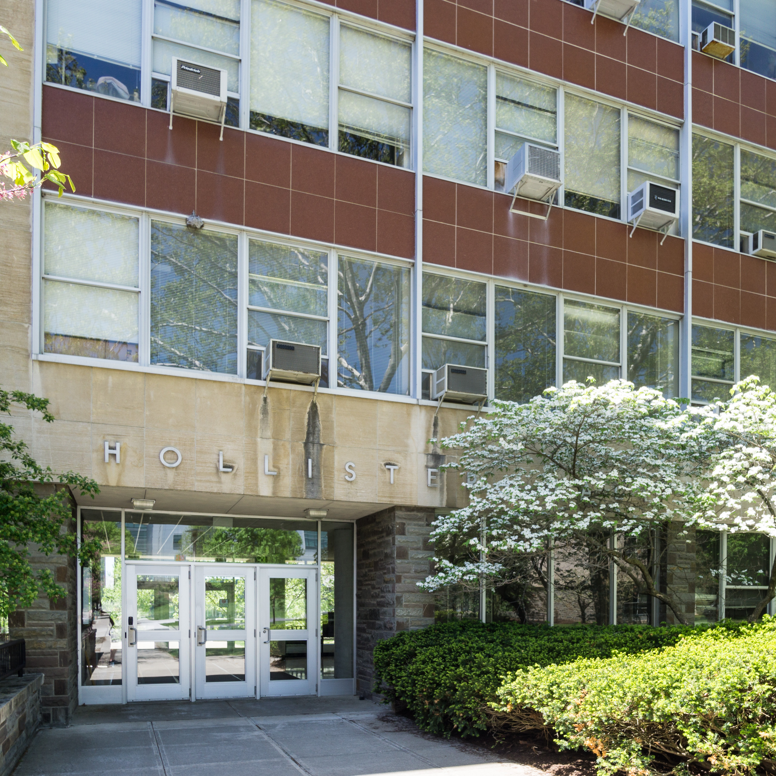 Hollister Hall, 527 College Ave. Built 1957, Perkins+Will. Cornell University Engineering Quad, Ithaca, NY